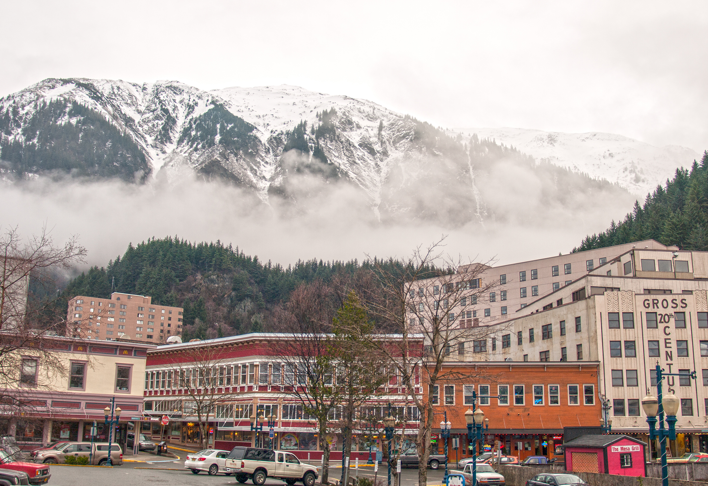 Juneau, Alaska - Front Street, Downtown with Mount Juneau